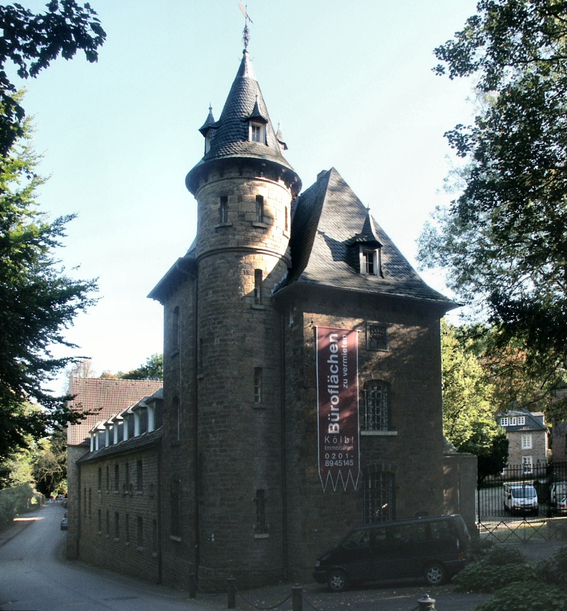 Schloss Schellenberg in Essen-Rellinghausen, southern aspect